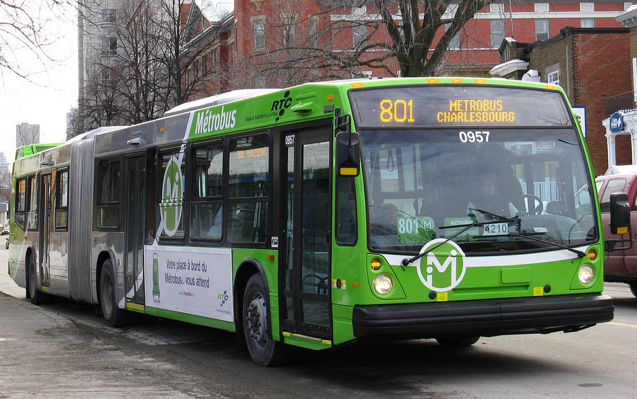 Articulated Nova Bus LFS Artic 2009 bus of Réseau de Transport de la capitale (Québec, Canada).